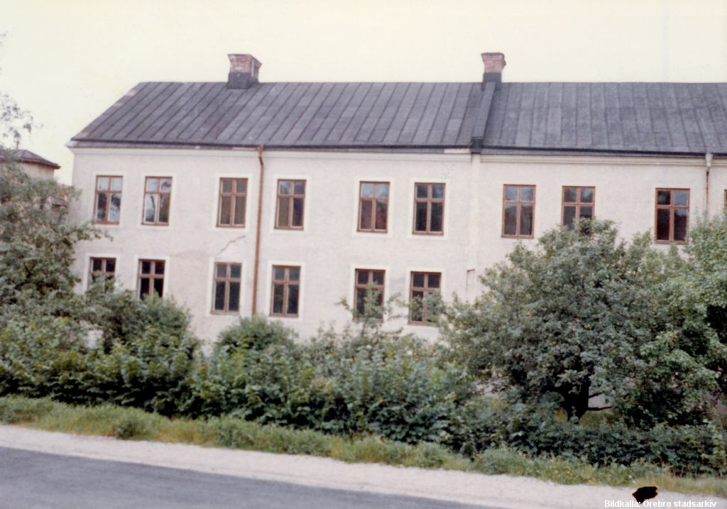 Åbackegatan 6-8, Örebro, Sweden